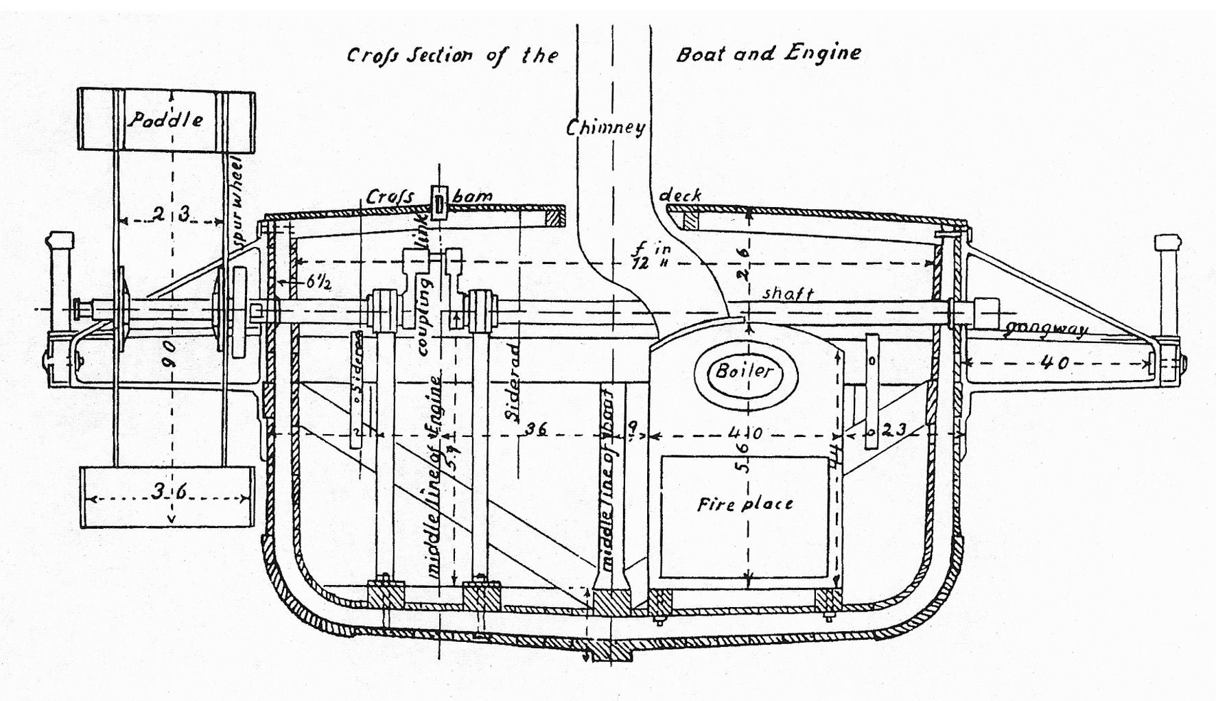 Cross section of the engine room of the german steamship “Die Weser” from 1817.